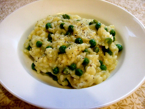 Risotto with peas